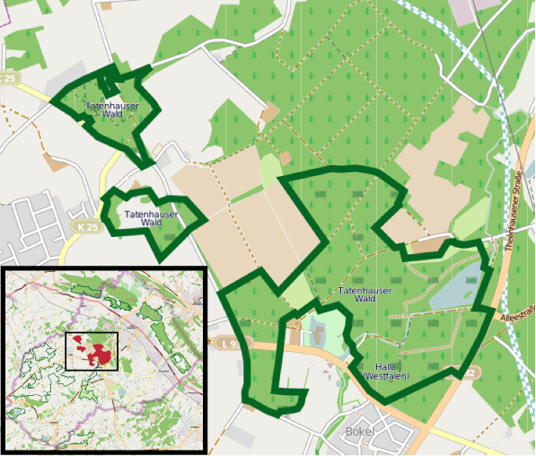 Halle (Westfalen) - Nature reserve Tatenhauser Wald - overview mapNumber and borders of nature reserves are subject to frequent change. In order to facilitate reproduction of this map from openstreetmap, the following data is stored here: export boundaries: north: 52.06; west: 8.3; south: 52.038; east: 8.342; mapnik svg, scale 1:28.000 nature reserve boundary stroke weight 10.0; nature reserve stroke color: R 5, G 102, B 36; municipality border stroke weight: as found